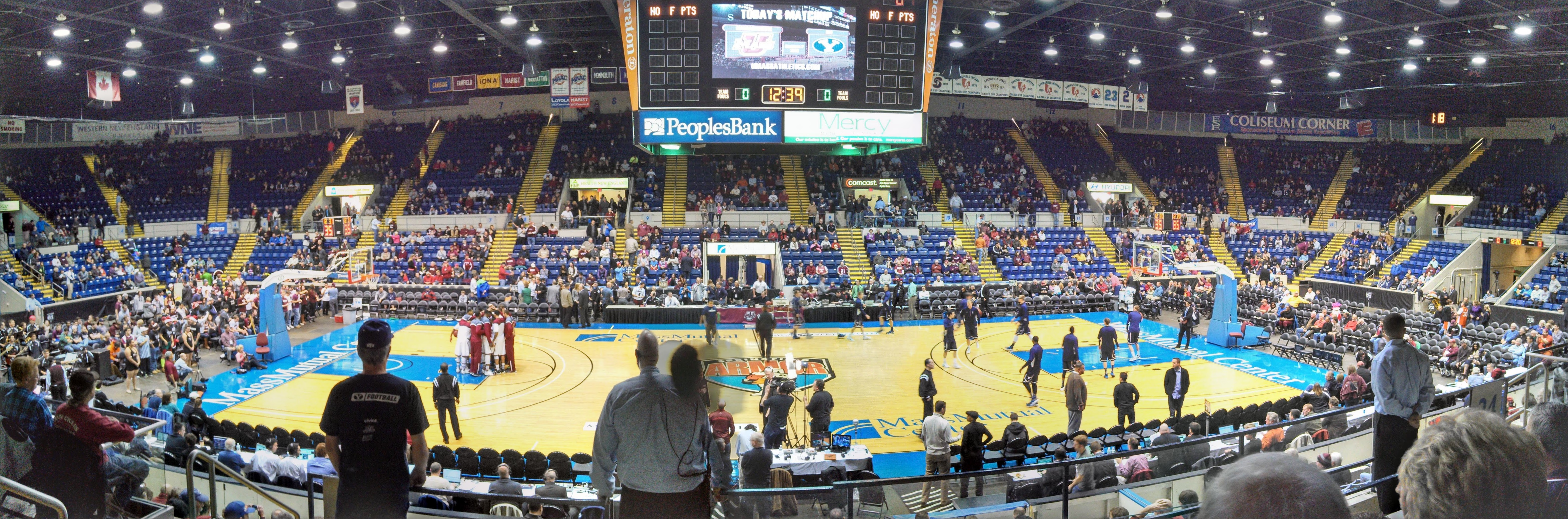 The MassMutual Center arena and convention center located in downtown Springfield, Massachusetts, USA - panoramic interior view